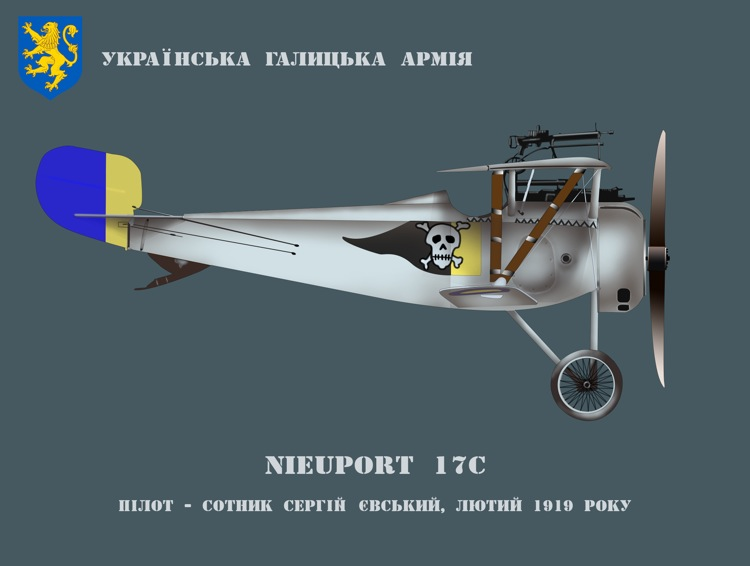 Nieuport 17 of the Ukrainian Galician Army